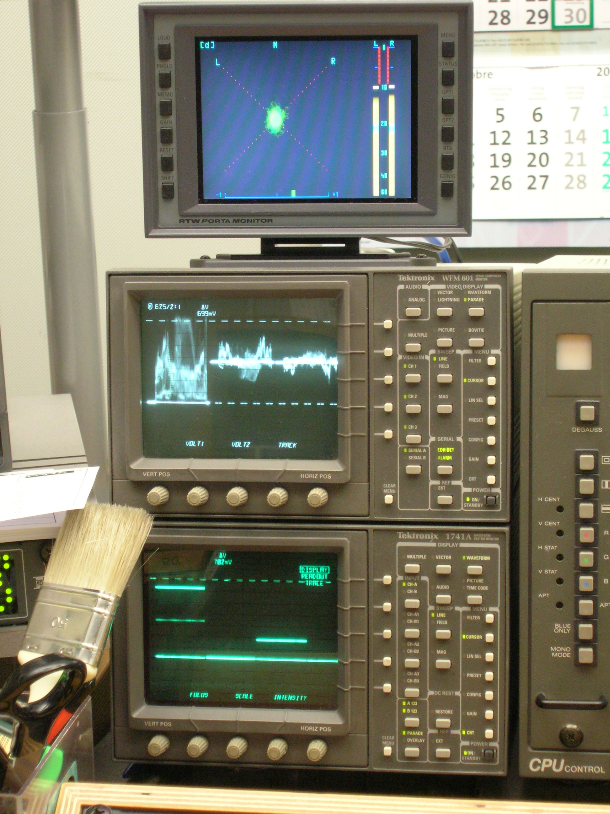 audio goniometer and 2 waveform monitors